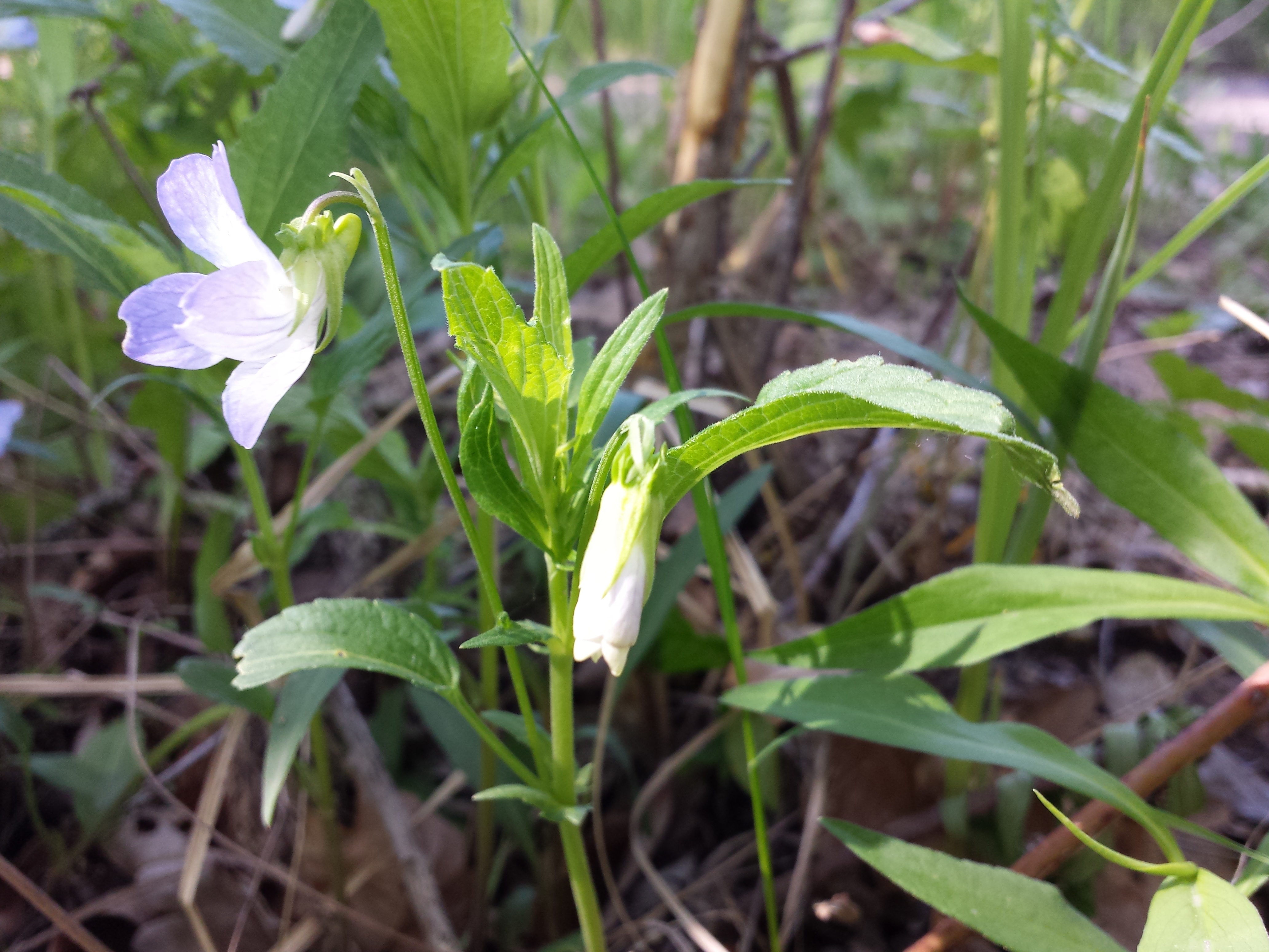 Habitus Taxon: Viola elatior cf. (sensu Fischer et al. EfÖLS 2008 ISBN 978-3-85474-187-9) Location: Ringelsdorf, district Gänserndorf, Lower Austria - ca. 150 m a.s.l. Habitat: flood plain